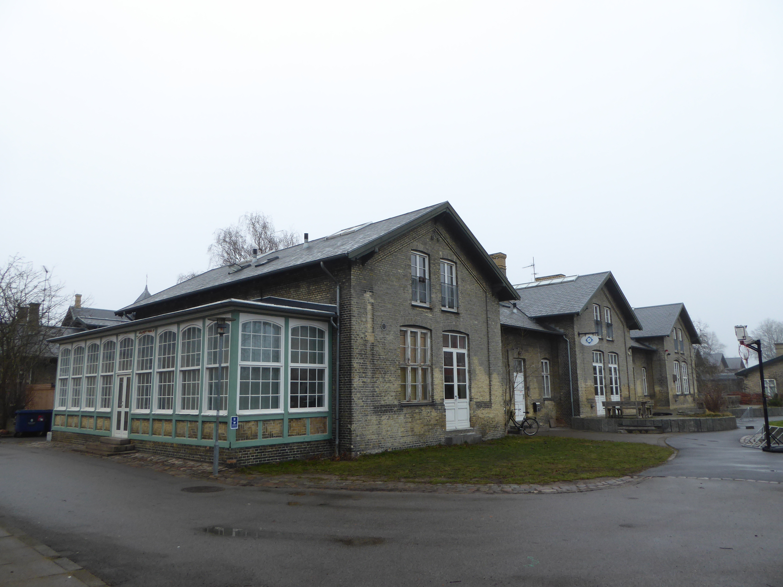 Cohousing of Fonden Østre Gasværk at Carl Nielsens Allé in Østerbro in Copenhagen. The building was previous a part of the epidemic hospital Øresundshospitalet.